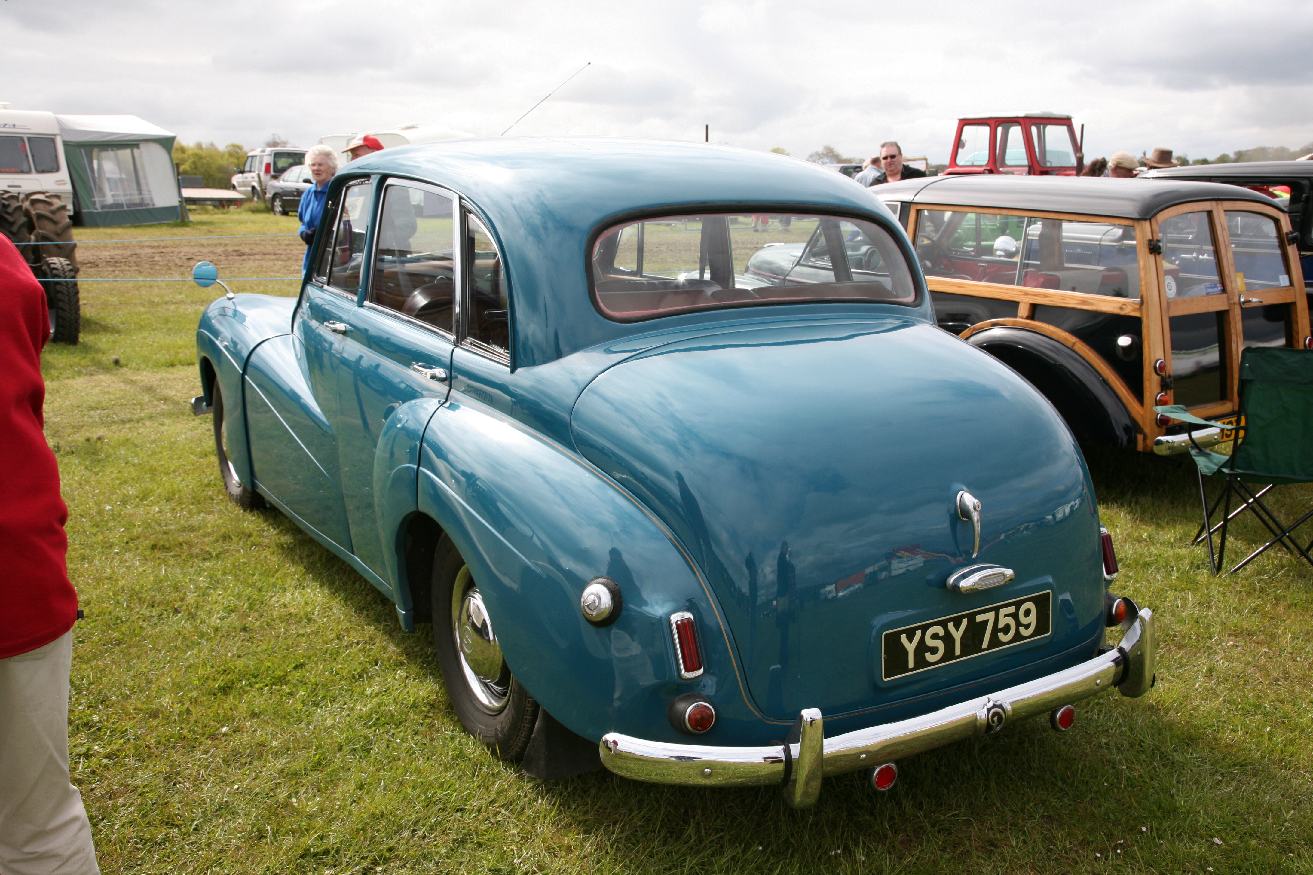 Daimler Conquest 1953 (DVLA) first registered 16 July 1953, 2433cc